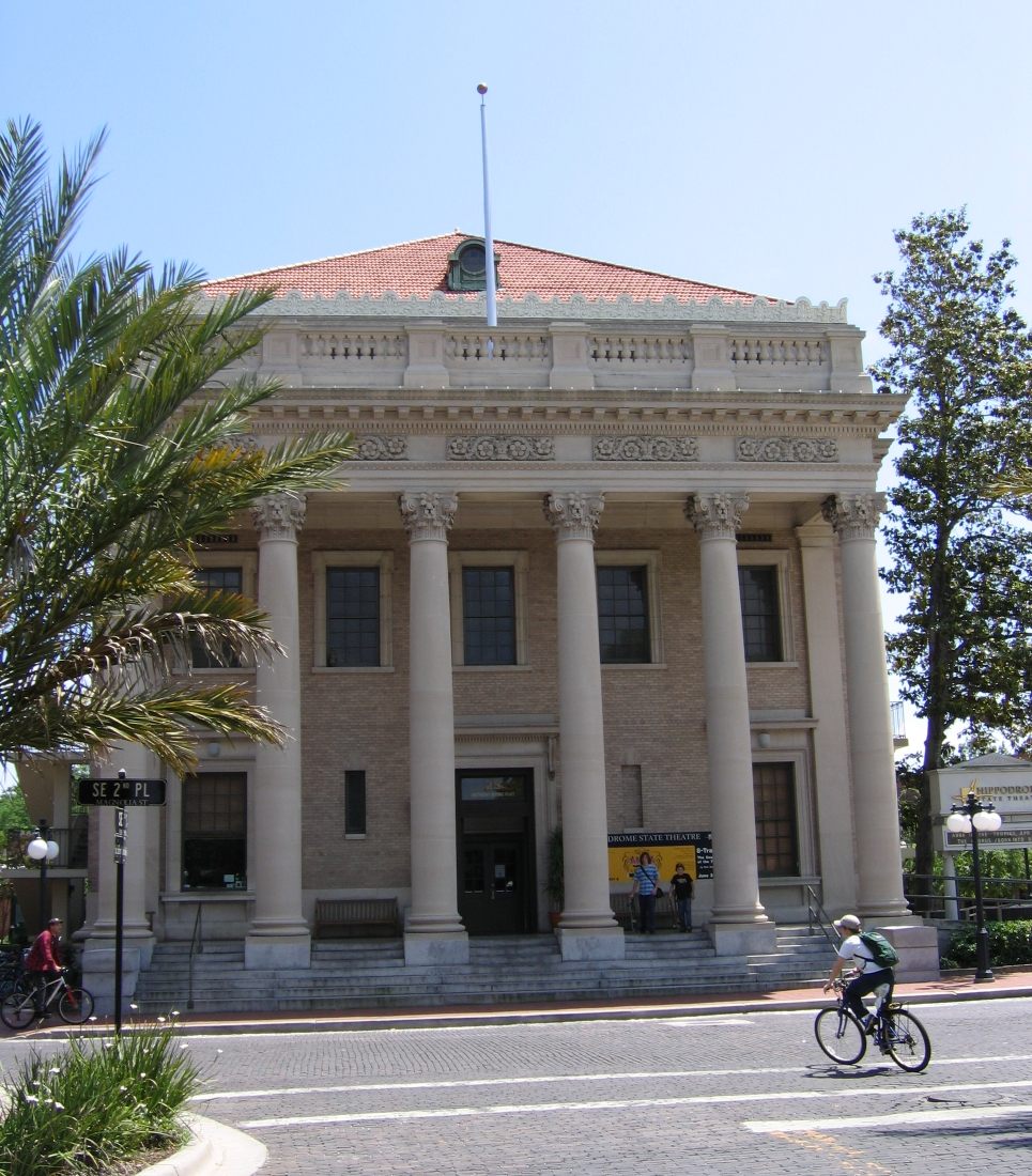 Hippodrome State Theater